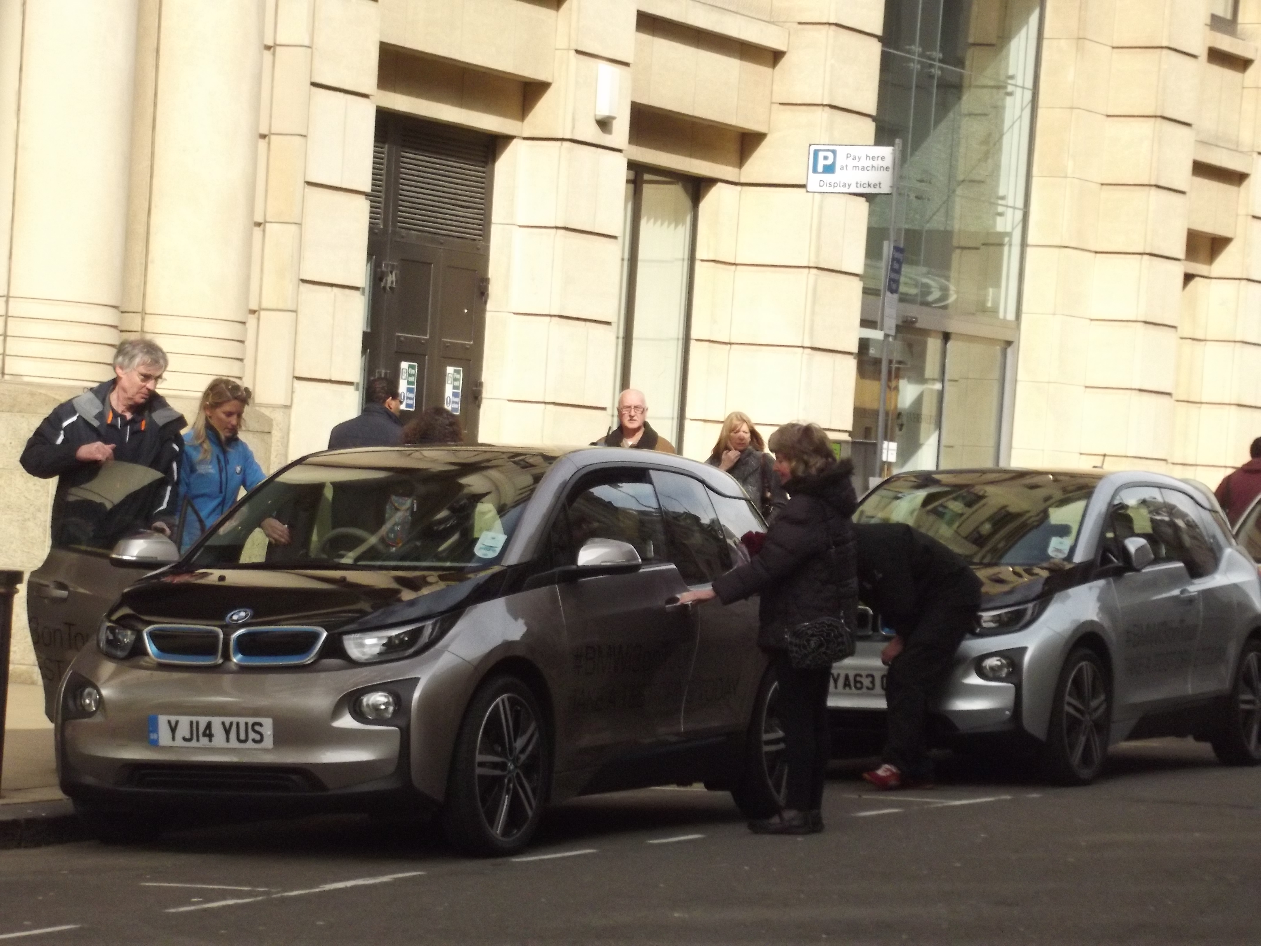 Become Electric - BMW i3 on Tour. Test drives at Victoria Square and Colmore Row, Birmingham.